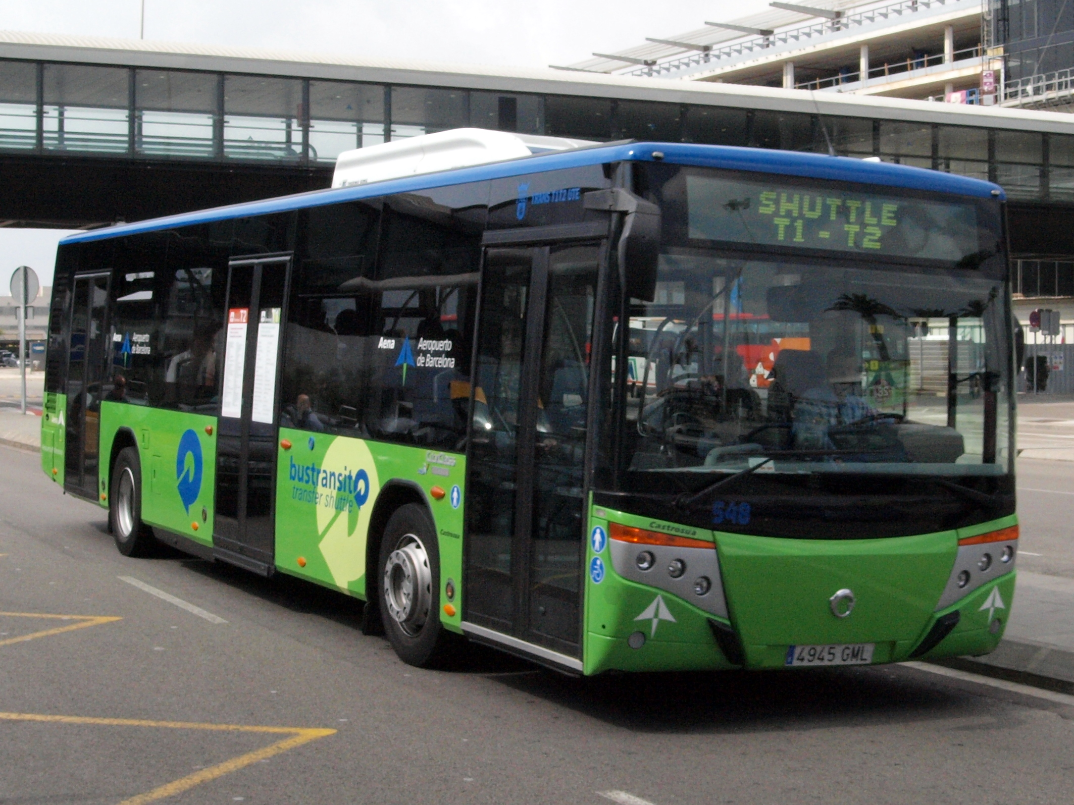 Photographed at Barcelona. Irisbus bustransit.